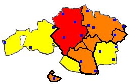 Map of Uribealdea (Uribe) eskualdea in the context of historical formation of Biscay. Red: Uribealdea Orange: other constituent districts of Biscay Yellow: later incorporations Blue dots: chartered towns and cities